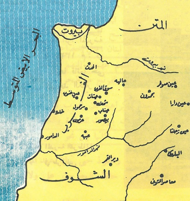 Some Lebanese Iqta's during the Mamluk era: Beirut, Al-Gharb, Al-Matn, Al-Chouf.